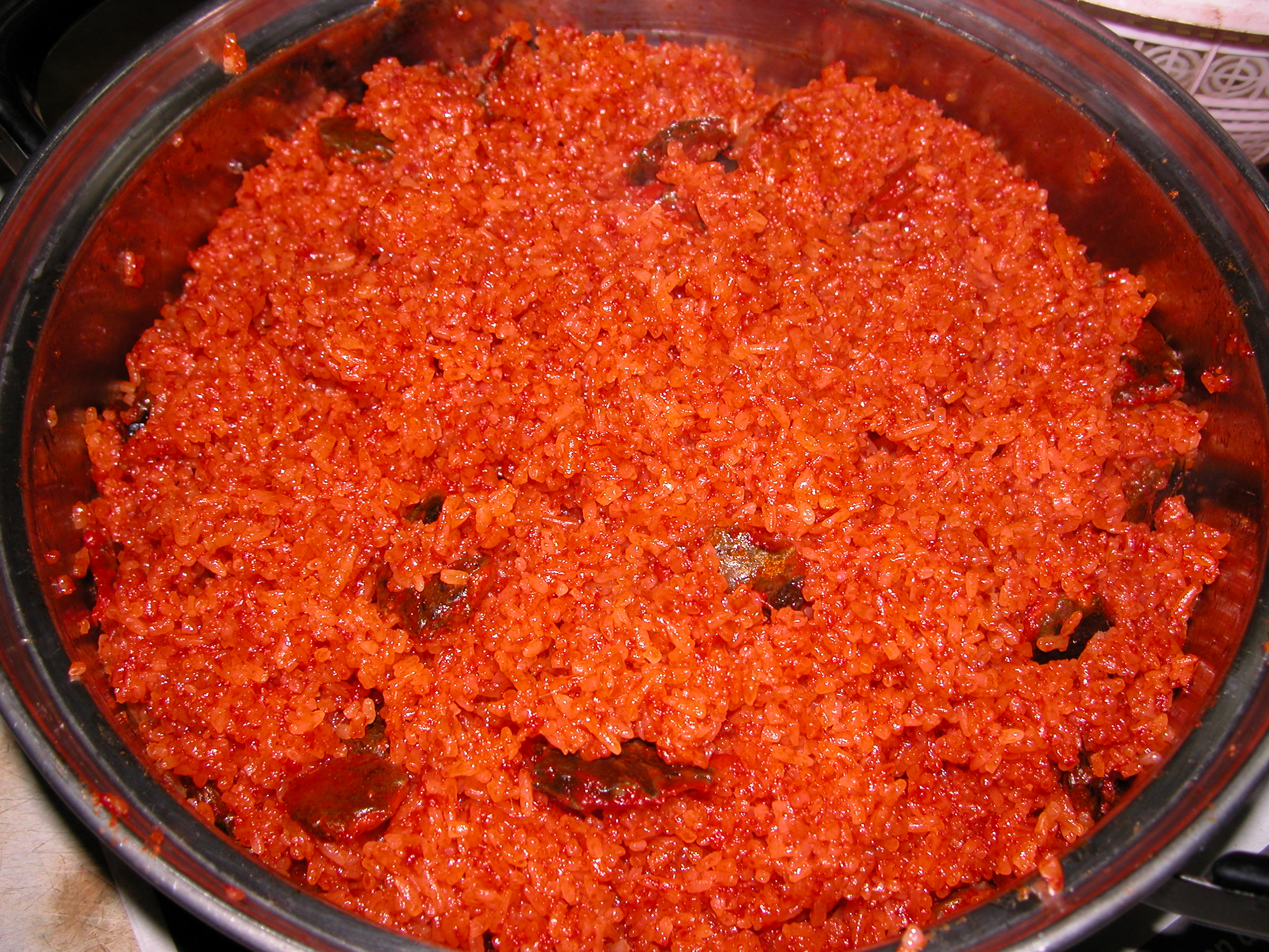 Glutious rice made with extraction from ripe fruits of Momordica cochinchinensis, vietnamese style